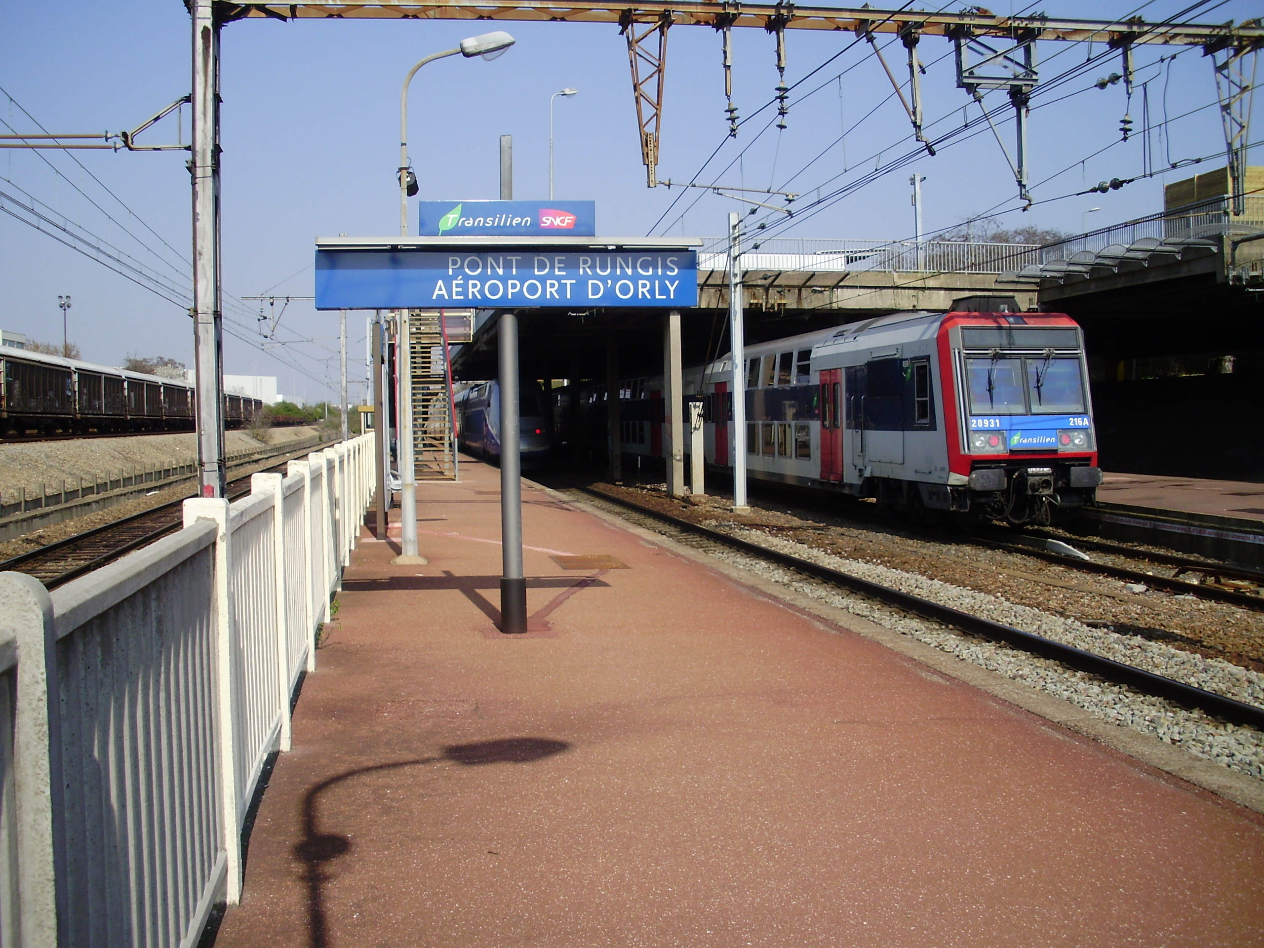 Platform 2 of the Pont de Rungis - Aéroport d'Orly station, in Thiais, Val-de-Marne, France